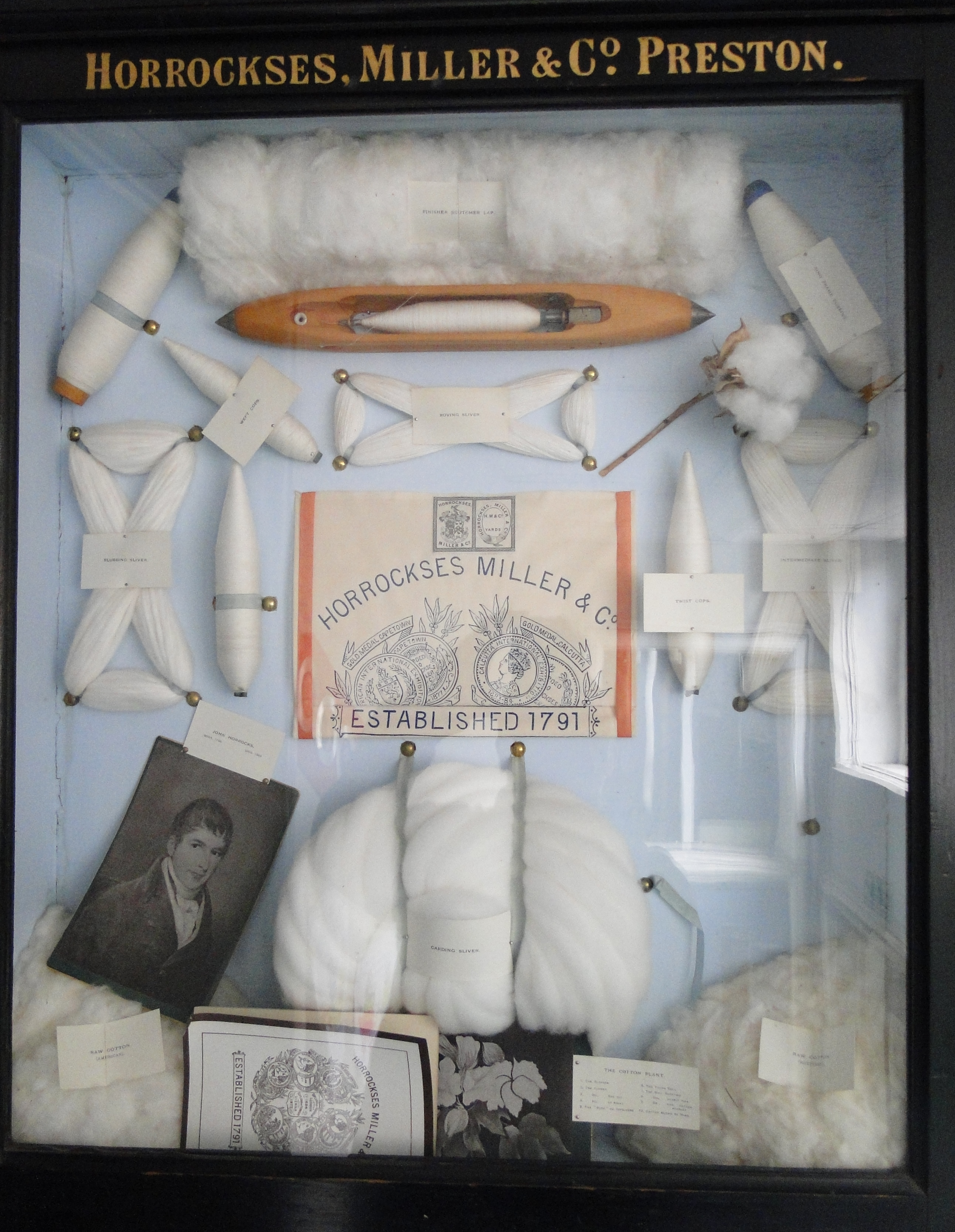 Old advertising display for from a cotton manufacturer in Preston, Lancashire, UK showing items used in cotton textile manufacture displayed in a primary school in Radcliffe, Greater Manchester The items row by row are labelled: Finished scutcher lap ring frame bobbin : Shuttle : ring frame bobbin weft cop : roving sliver : cotton boll slubbing sliver : twist cop : company crest : twist cop : intermediate sliver John Horrocks (1768-1804) : carding sliver raw cotton (American) : Book : The cotton plant: raw cotton (Egyptian)